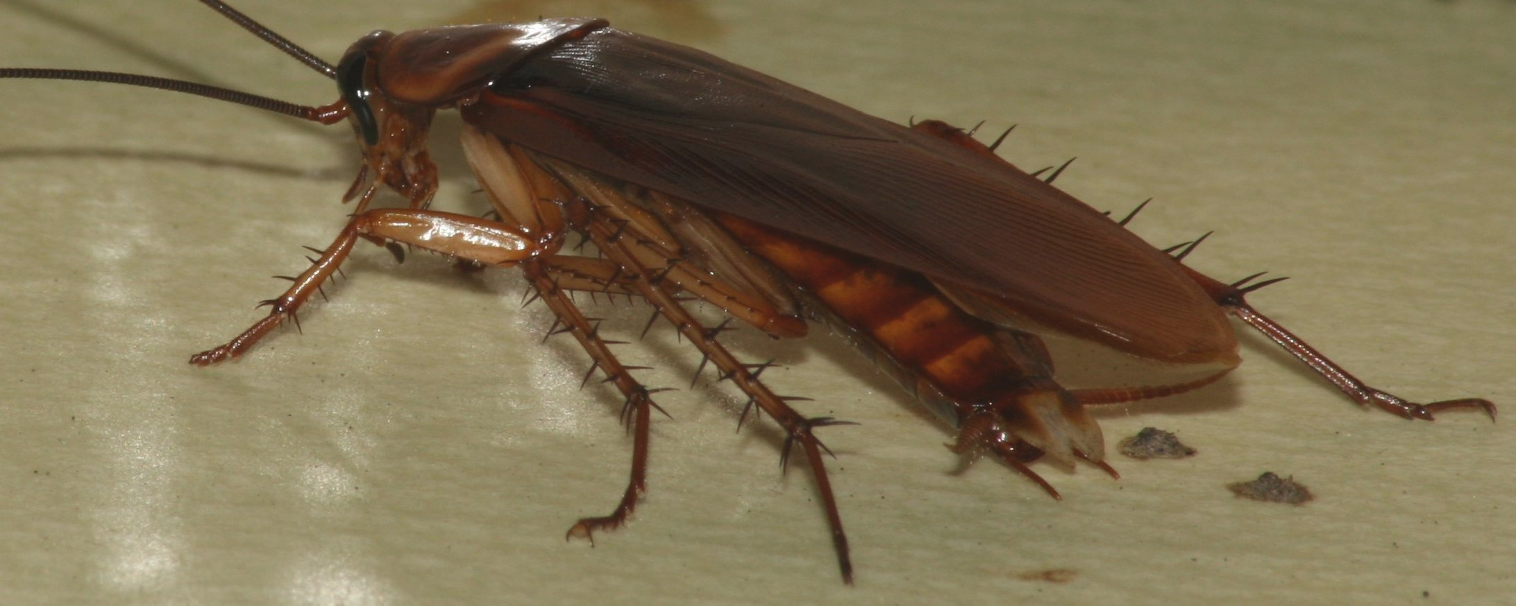 Photograph of an American Cockroach (male), photographed in my house in Hilo, Hawaii on 8-July-2006.